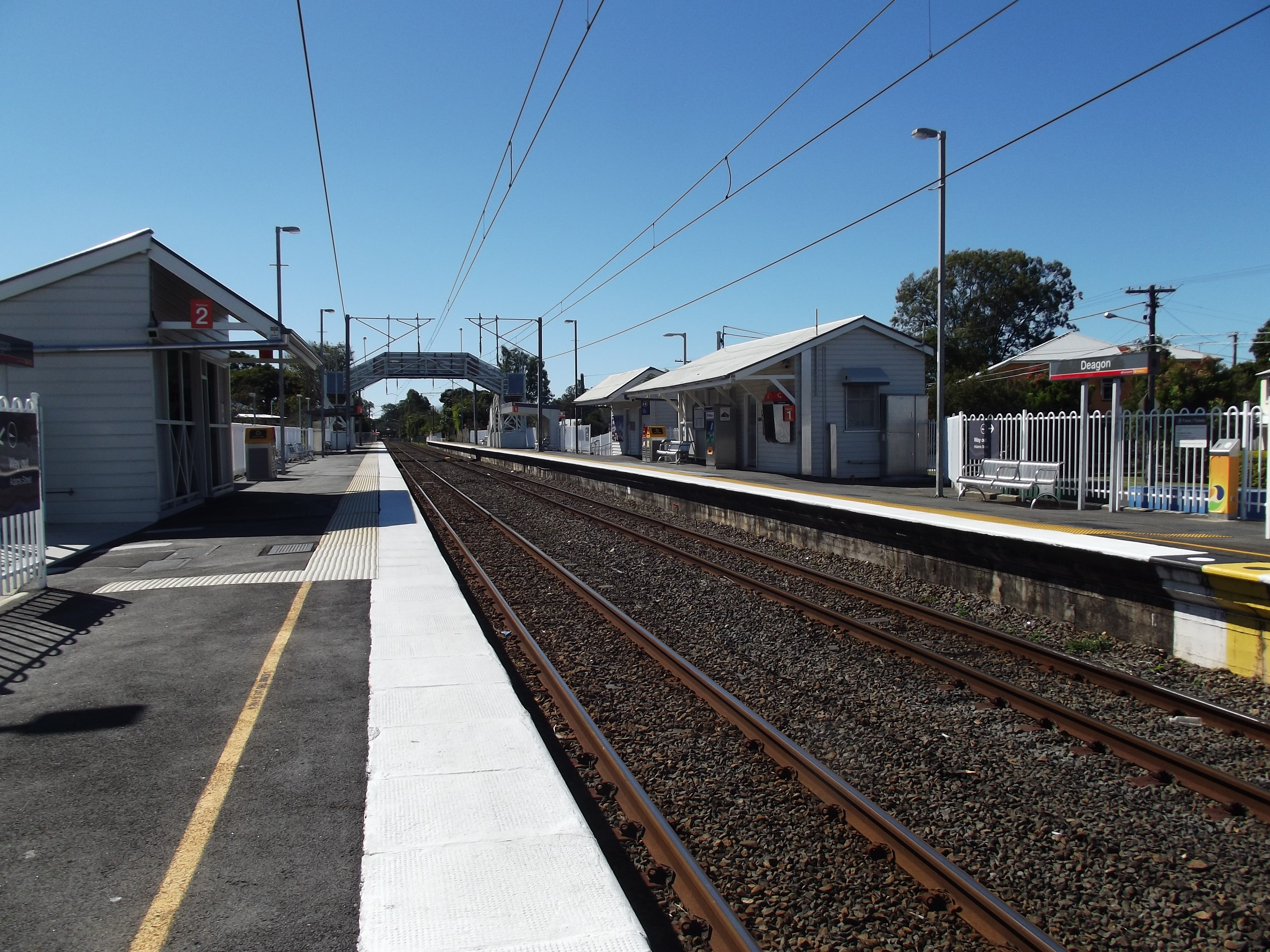 A photo of the Deagon railway station, operated by TransLink, located in Brisbane, Queensland.